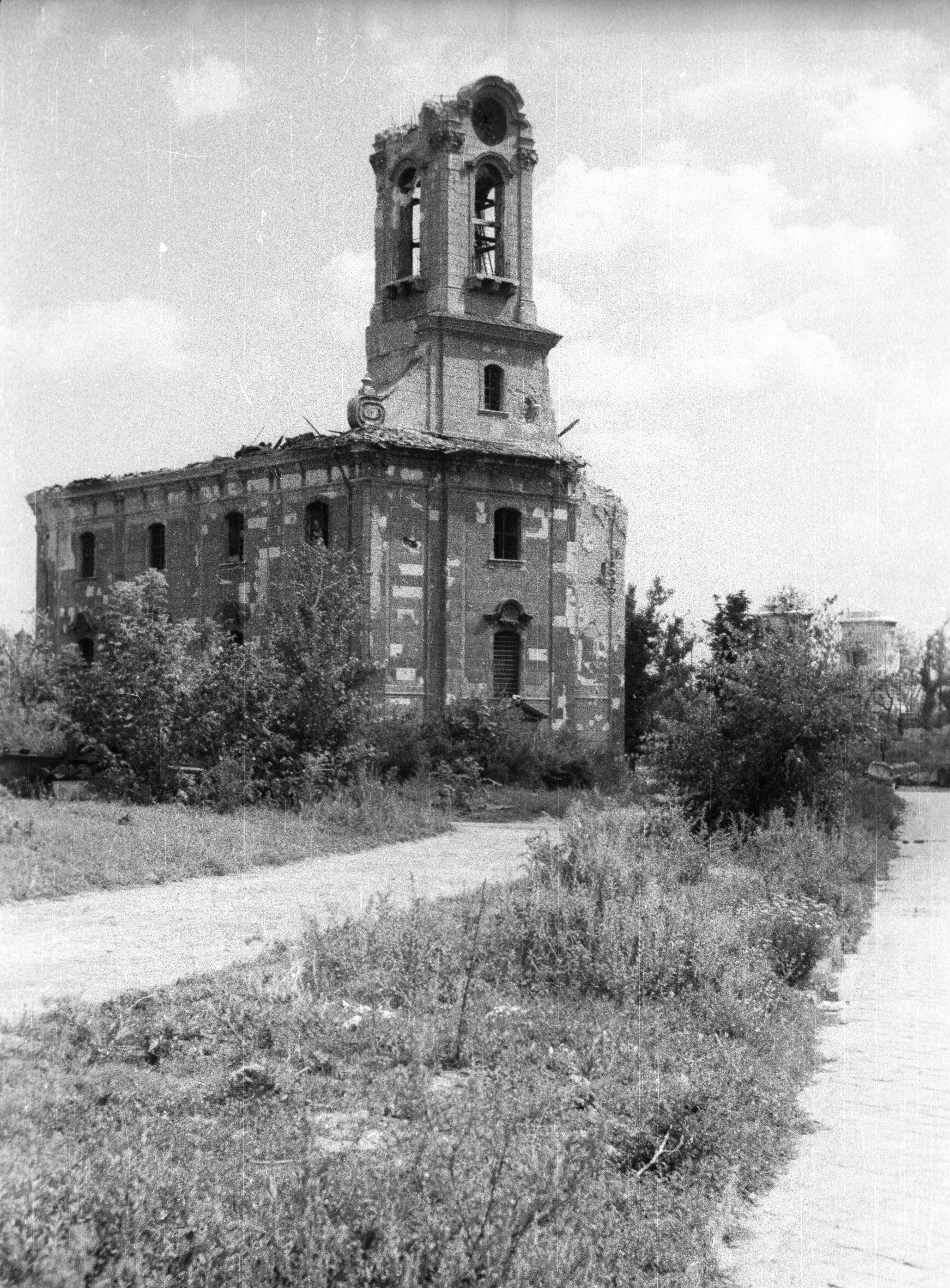 The ruins of the Church of Saint Demetrius in 1945 after the Siege of Budapest. The Serbian Orthodox Cathedral was built between 1742 and 1751 in Baroque style by Ádám Mayerhoffer, and rebuilt after the 1810 Tabán fire. The church was seriously damaged in 1945 during the siege of Budapest, and finally demolished in 1949.